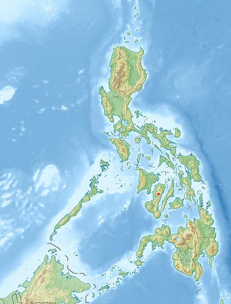 The location of Mount Kanlaon in the Philippines